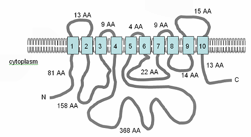 Author: Revel Drummond